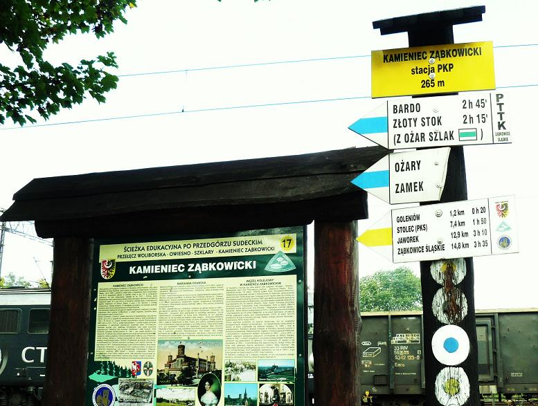 Education trail table in Kamieniec Zabkowicki PL - Przedgorze Sudeckie.